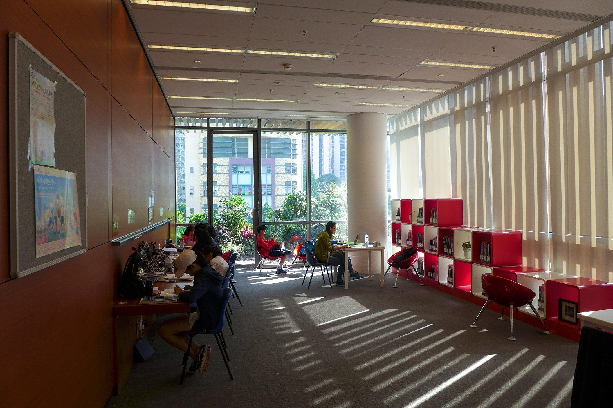 Hang Hau Sports Centre Reading corner